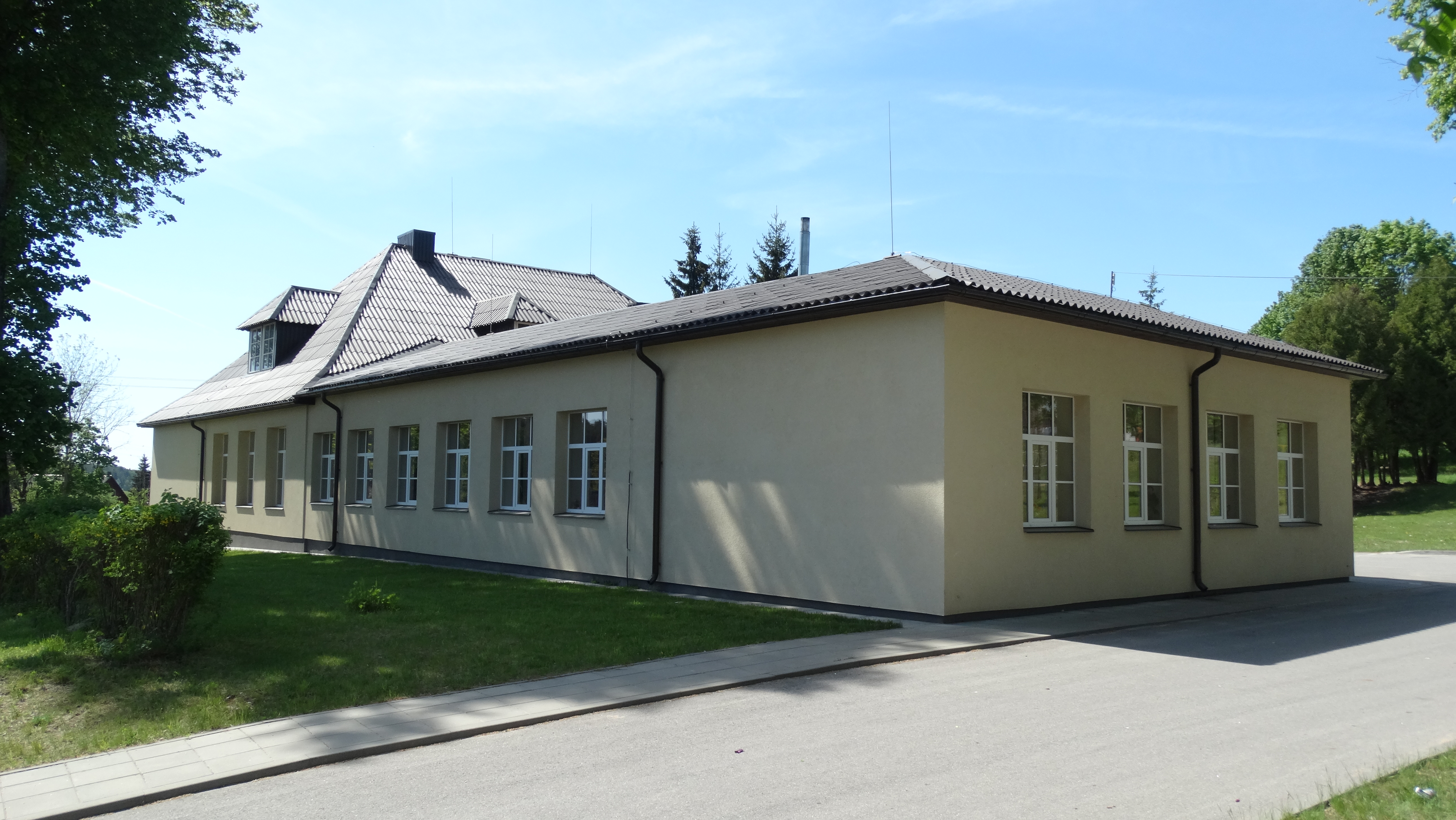 Ceikiniai, school, Ignalina district, Lithuania